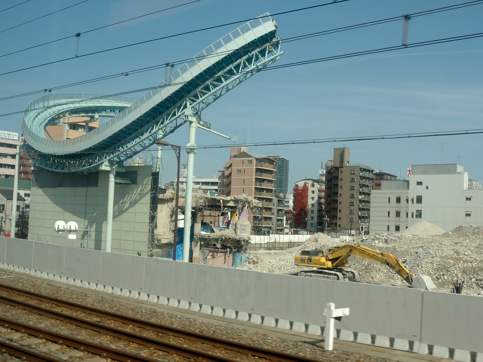 Demolition of the Festivalgate roller coaster. Taken 19 Mar 2012 from the window of a JR train near Shin-Imamiya Station.